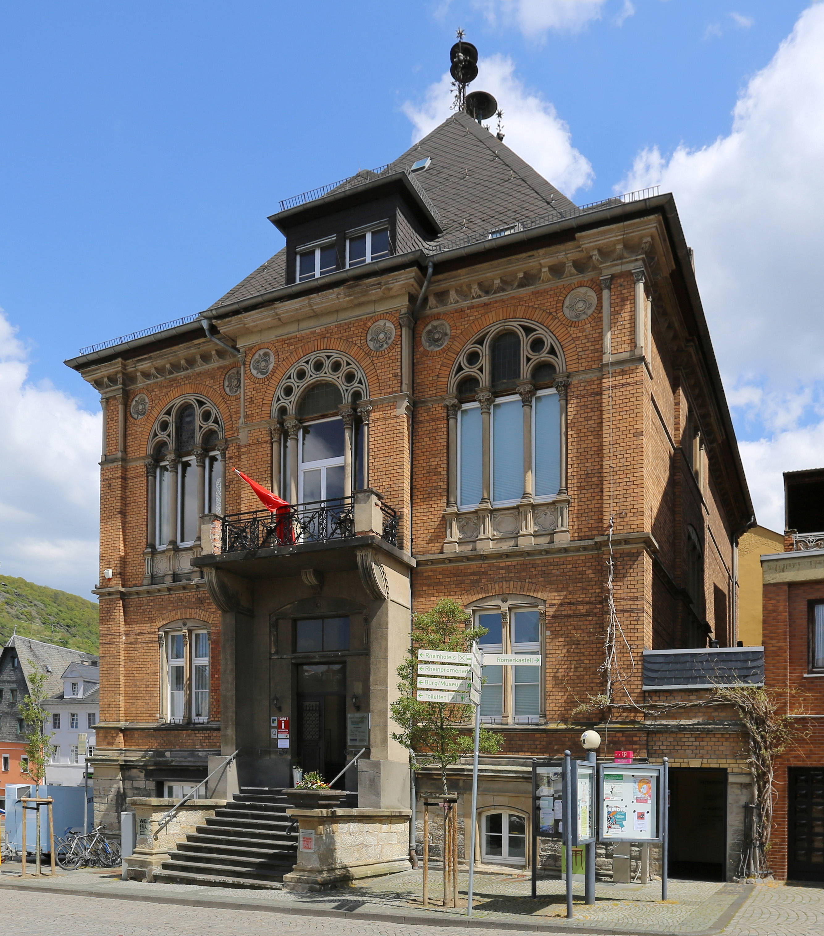 Old town hall (1749), 17 Market square (tourist office) of Boppard